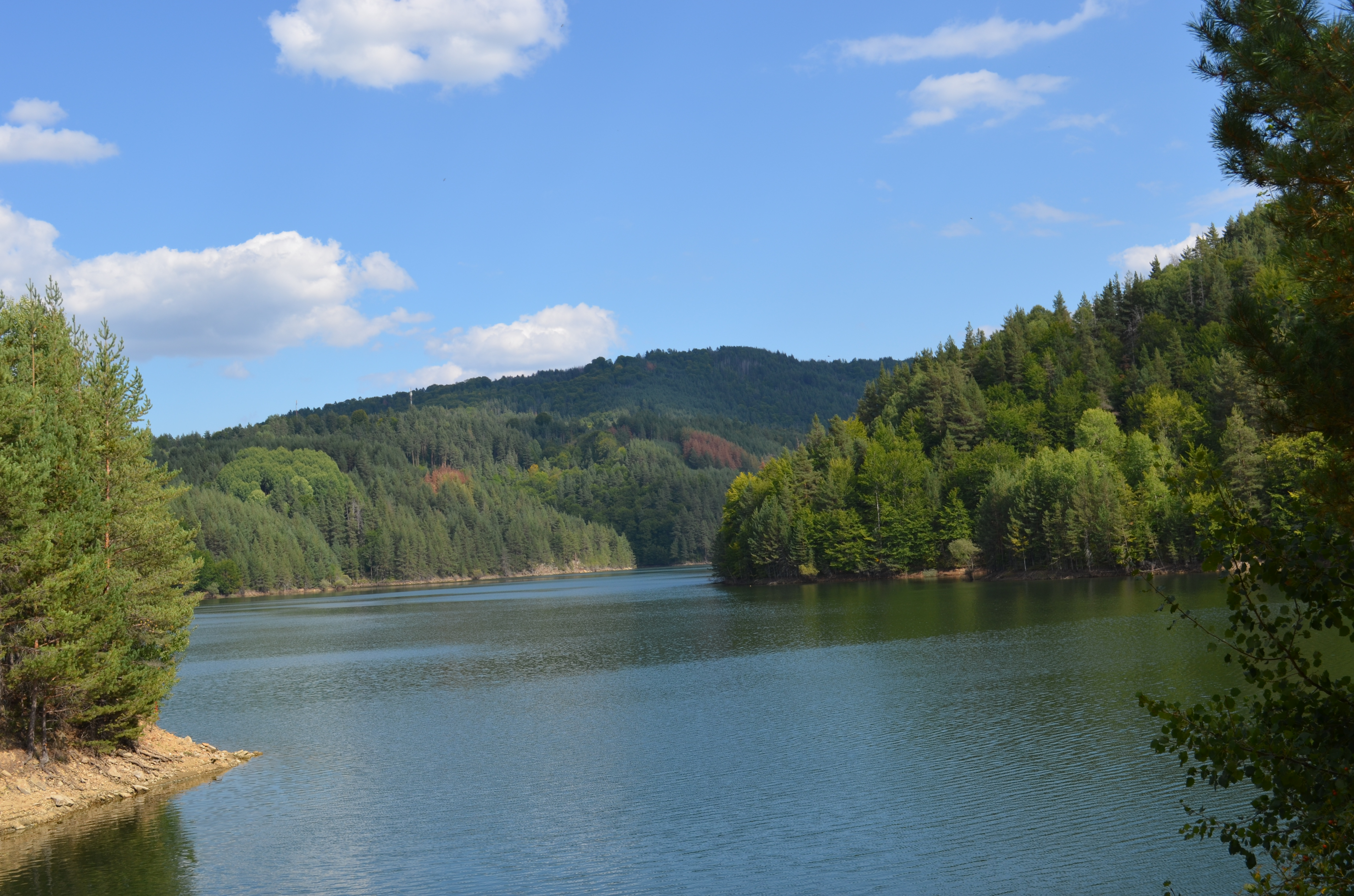 Berovo Lake, Macedonia